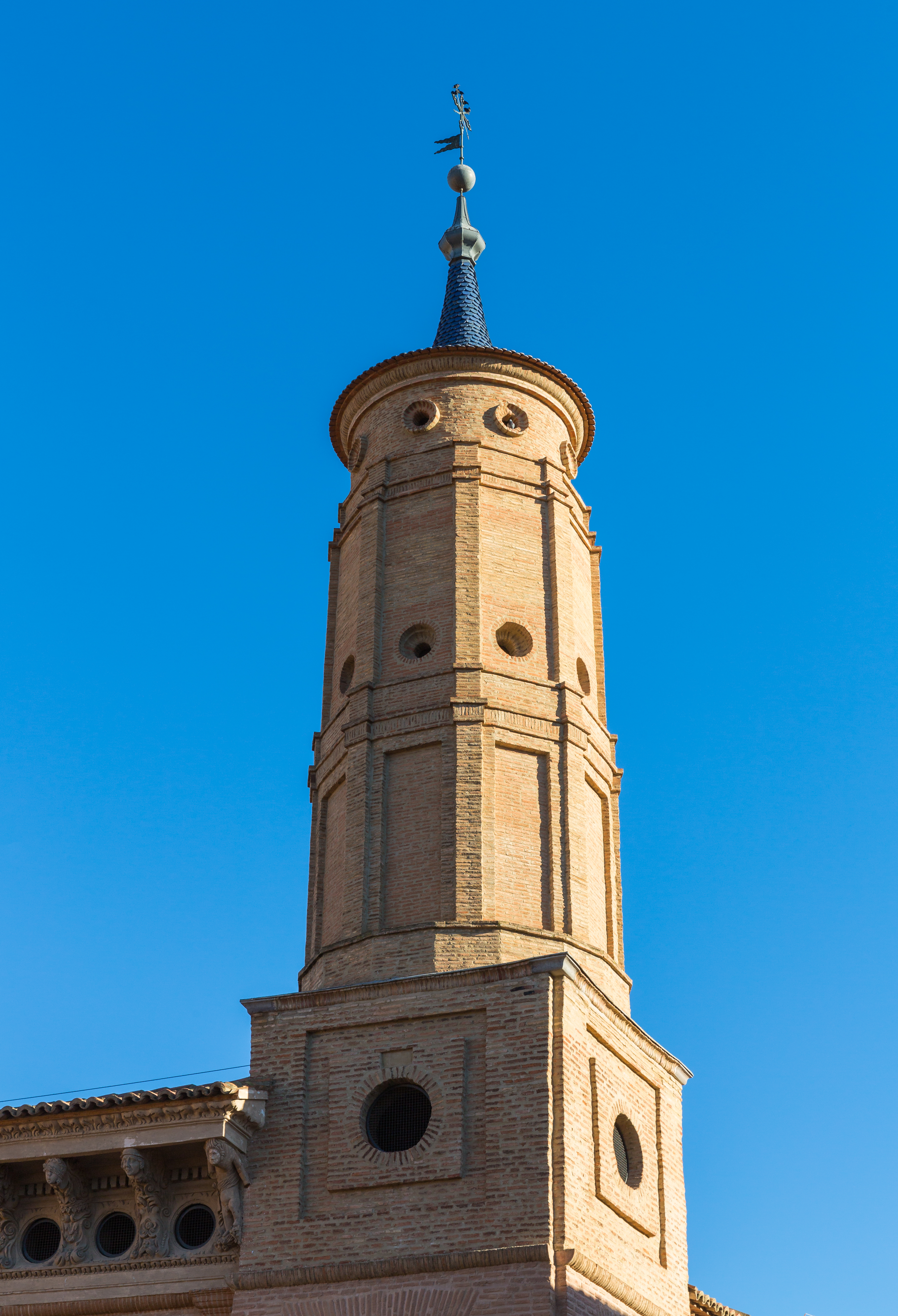 Palace of the Count of Morata, Morata de Jalón, Zaragoza, Spain